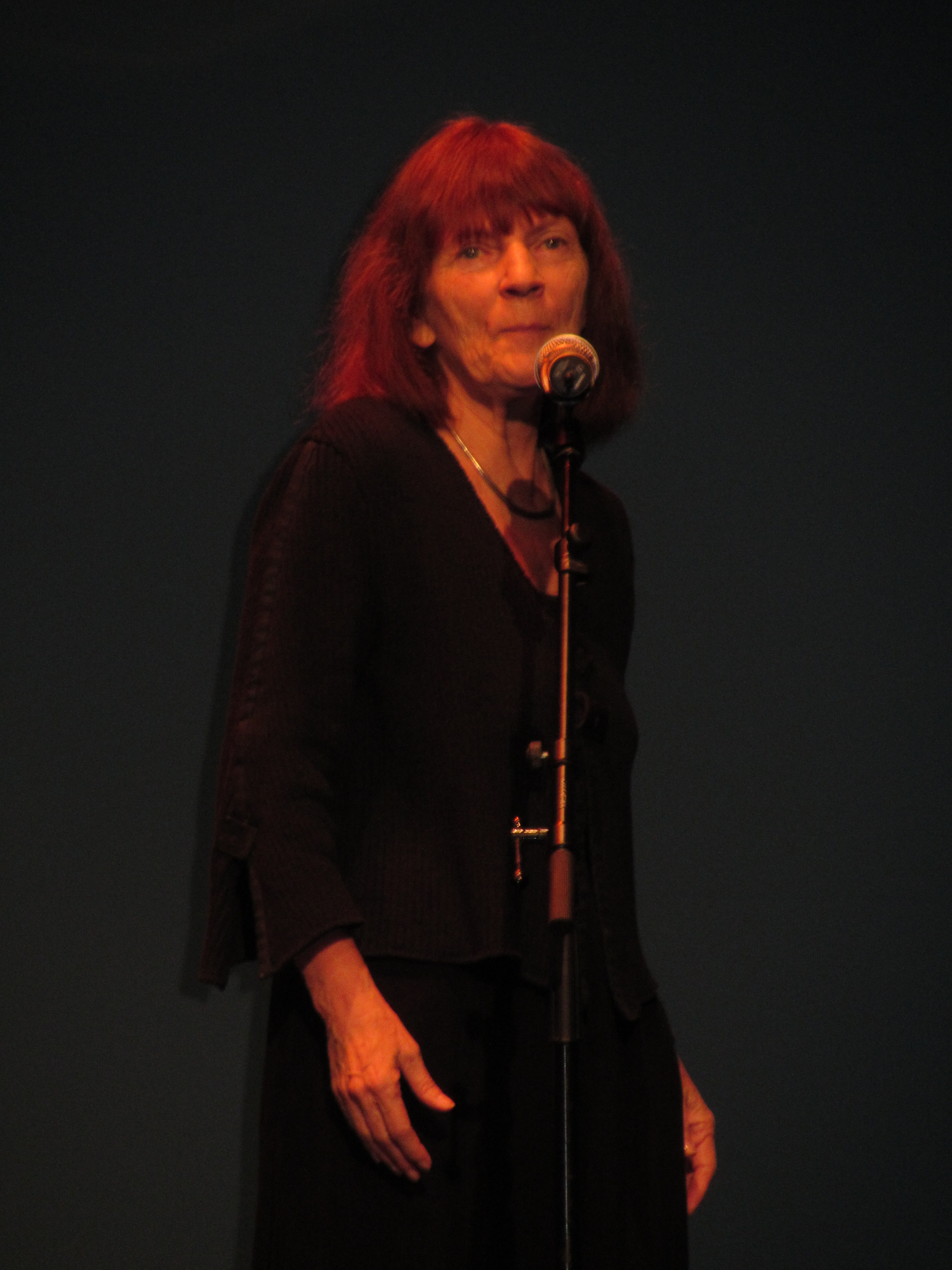 Sonja Kehler in red light -- singing songs by Hanns Eisler in the "Long Hanns Eisler Night" in Berlin, September 8, 2012, in the framework of the "Hanns-Eisler-Tage 2012" organised on occasion of composer Hanns Eisler's 50th deathday on September 6.